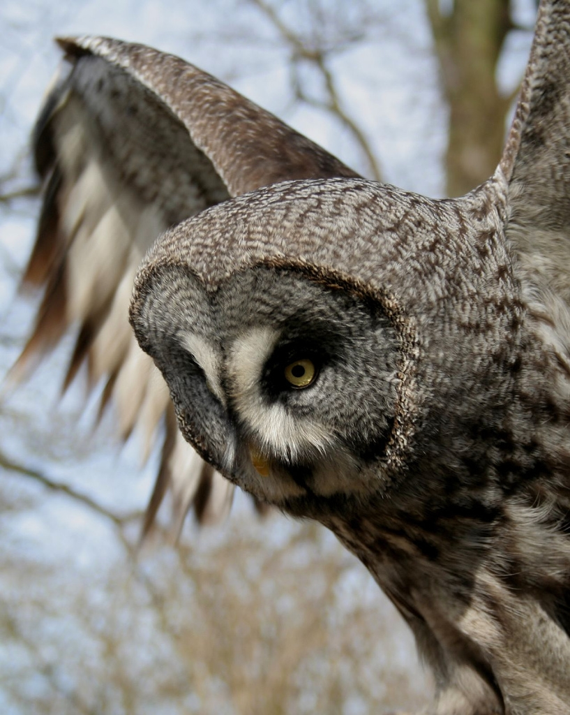 Strix nebulosa after starting from perch